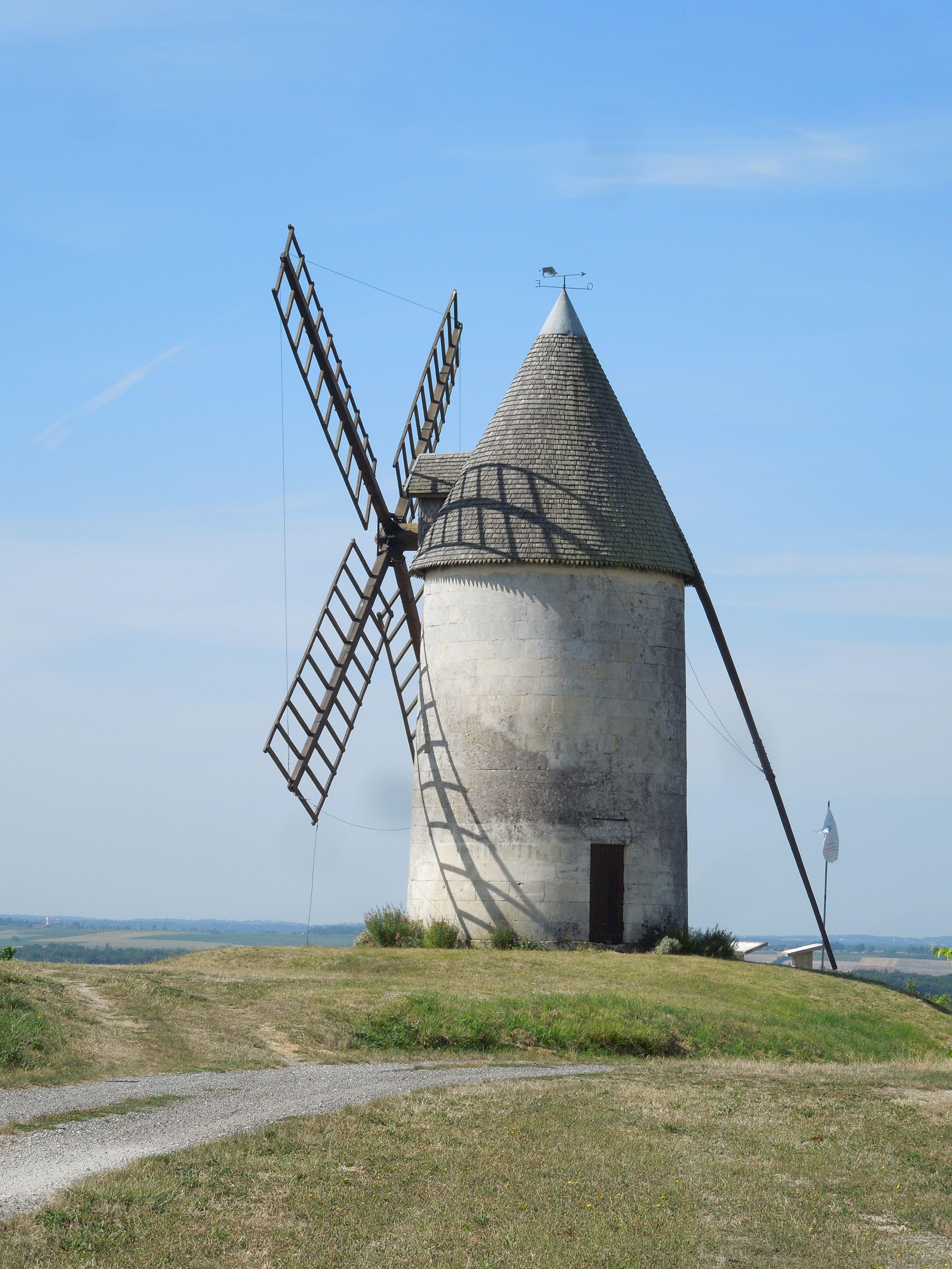 Sainte-Lheurine, restored windmill